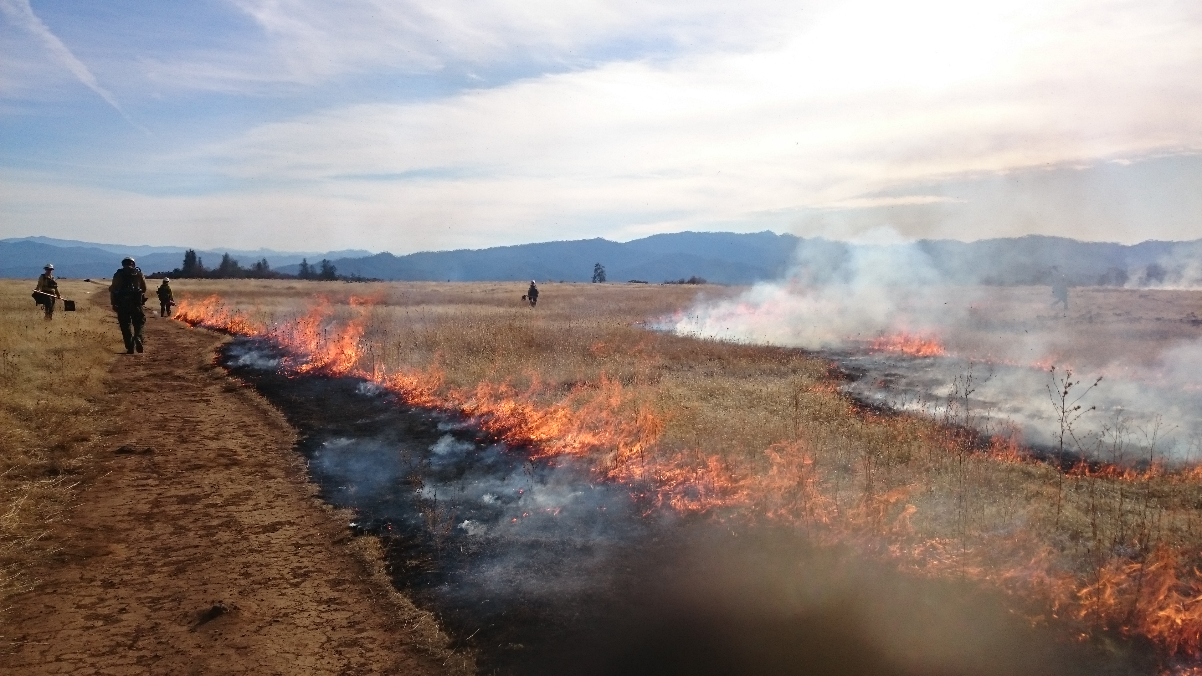 Twenty-three acres of primarily invasive, non-native grasses were burned yesterday, Oct. 22, 2015, at the BLM’s Lower Table Rock. This is the first time the BLM has conducted a prescribed fire on top of the rock, reported the BLM Medford District. Currently, non-native grasses have created a buildup of thatch in a very unique habitat on top of Table Rocks. Non-native species such as medusahead rye, downy brome and bulbous bluegrass are covering native species on the mounded prairie. More information about BLM prescribed burns: How to visit Table Rocks in southern Oregon: Photos: BLM